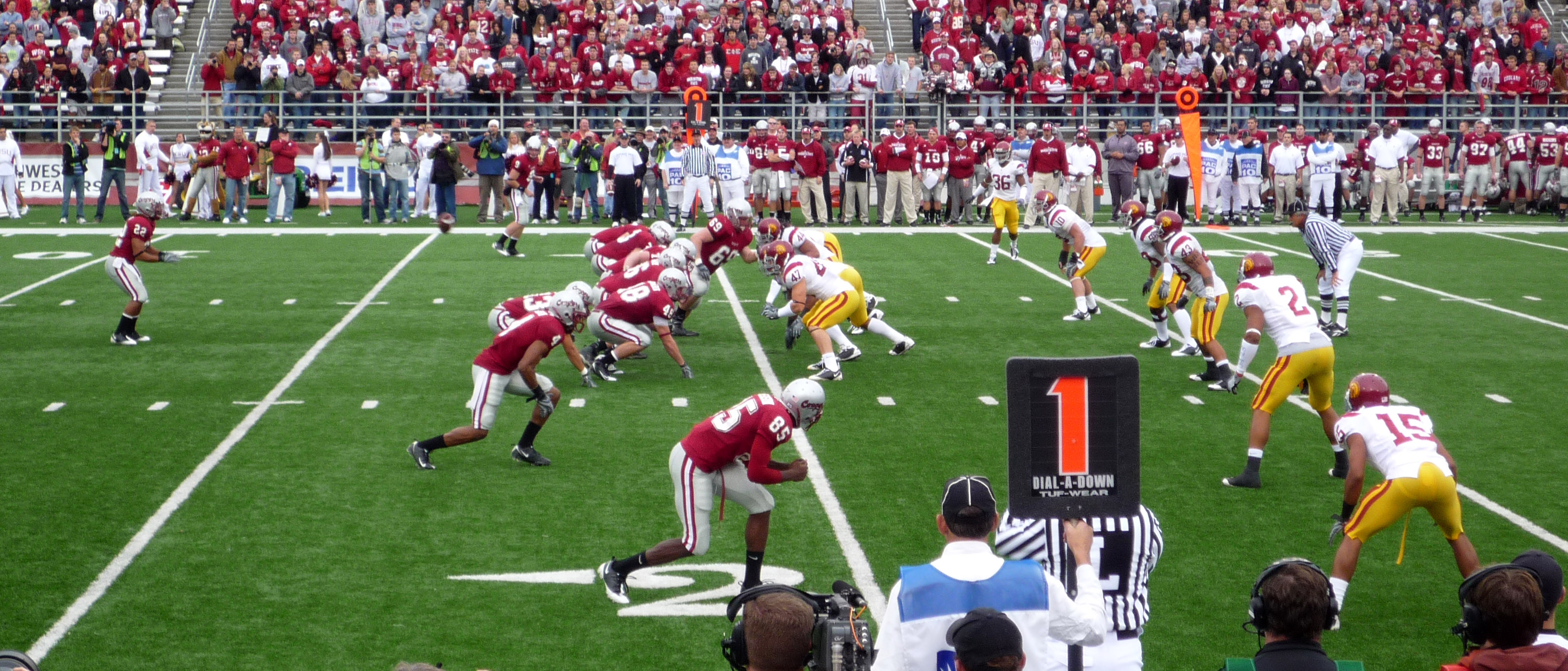 The Washington State Cougars run a "direct snap" a form of trick play from scrimmage done in American football where the quarterback does not receive the ball from center, which instead goes directly to another player who will run it or pass it. In this case, before the play the quarterback (#9) has gone to the far side of the field (lining up as a receiver), while the ball is being snapped directly to a running back (#22). This photo is from Washington State's game against the USC Trojans in the 2008 season. The Trojans had a lauded defense during the 2008 season, notable players in this image include: Taylor Mays (#2), Kaluka Maiava (#43), Rey Maualuga (#58), Brian Cushing (#10), Josh Pinkard (#36) and Clay Matthews (#47). The final score was 69-0, USC.